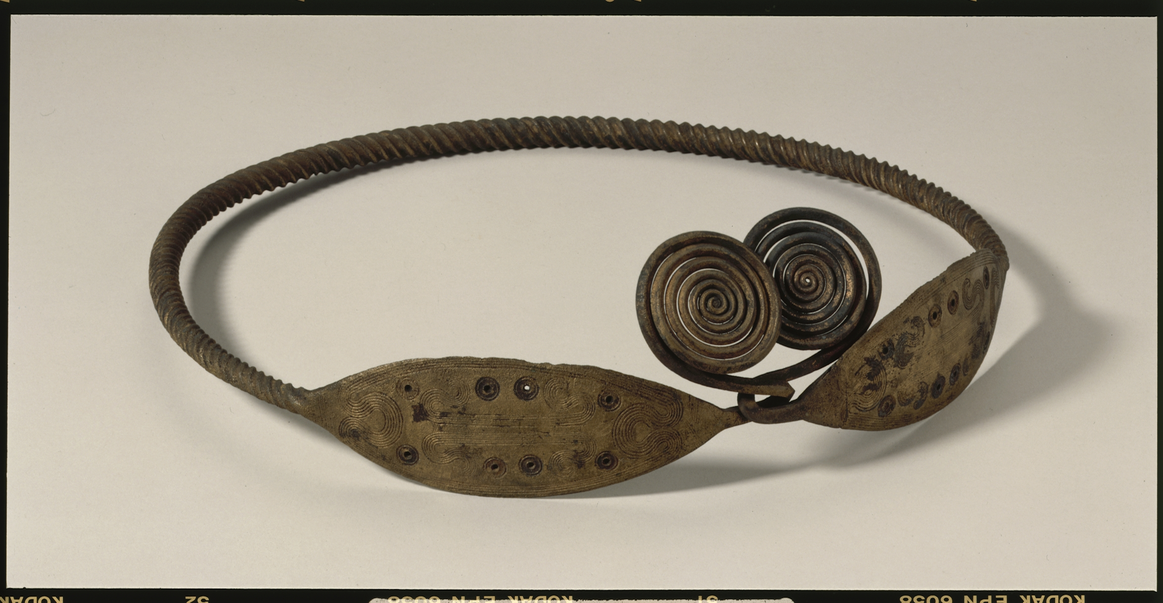 Neckles, ring, whitch open at front, Løve Mark, Gerlev sogn, Denmark